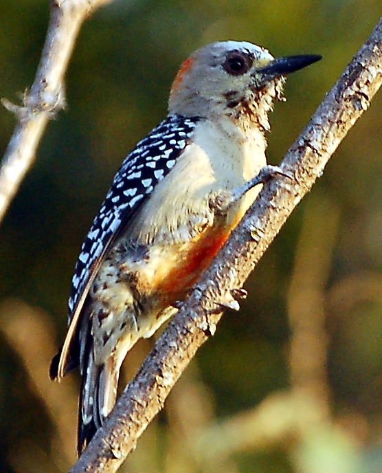 Melanerpes rubricapillus (Red-crowned woodpecker), female